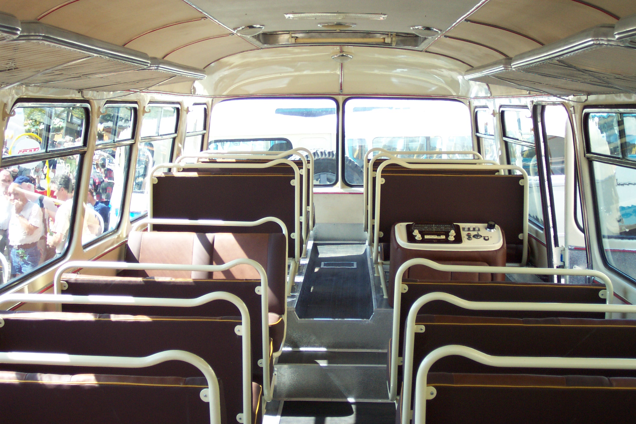 Bus trailer model NO 80 at the exhibiton in prague Výstaviště - exhibition park. Trailer bus built 1958, ČSAP Nymburk operator.